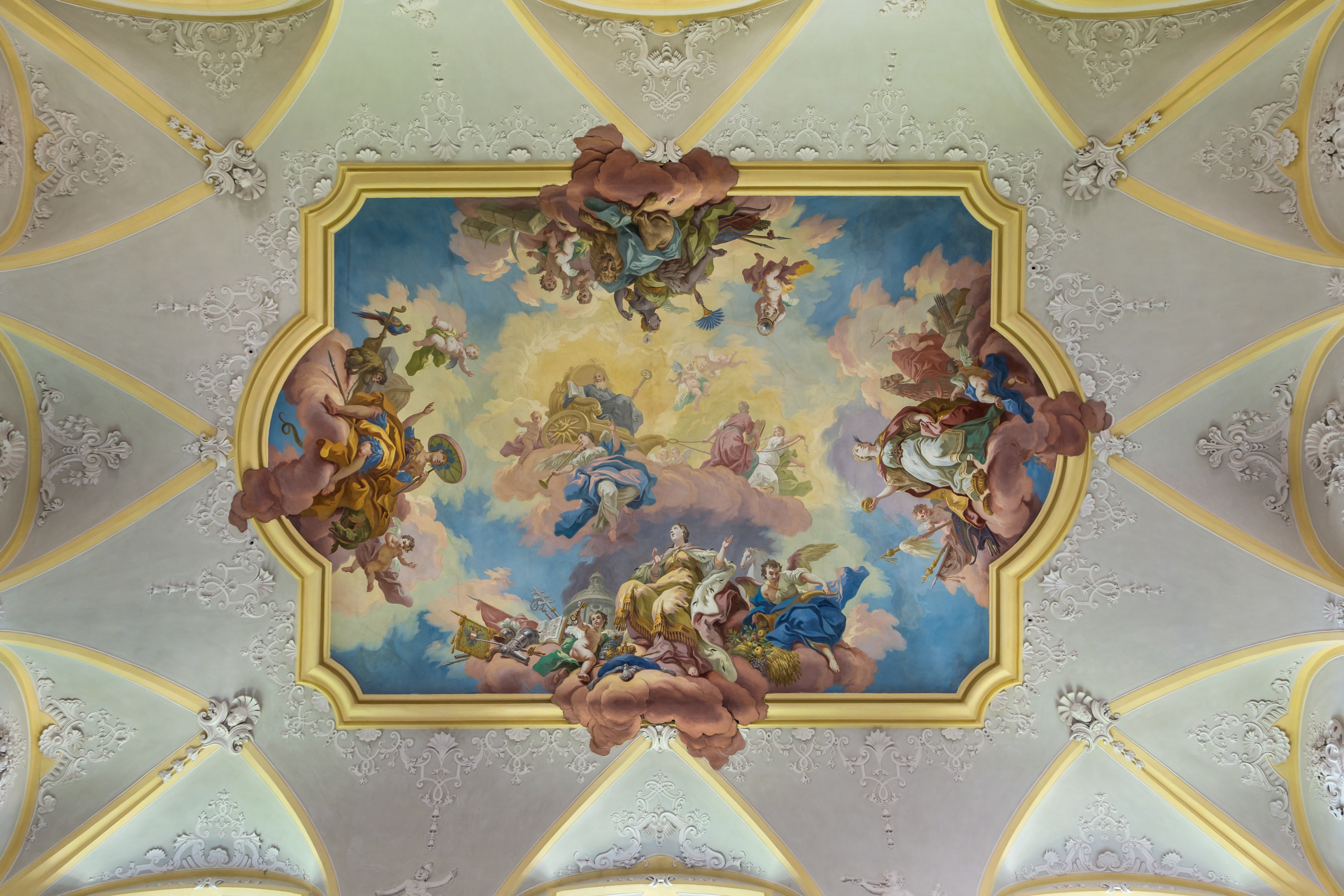 Ceiling fresco of the Abbey's Staircase at Seitenstetten Abbey (Lower Austria) by Bartolomeo Altomonte (1744): Triumph of St. Benedict